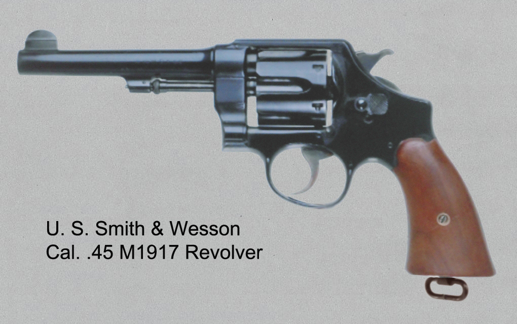 US S & W45 M 1917 Revolver